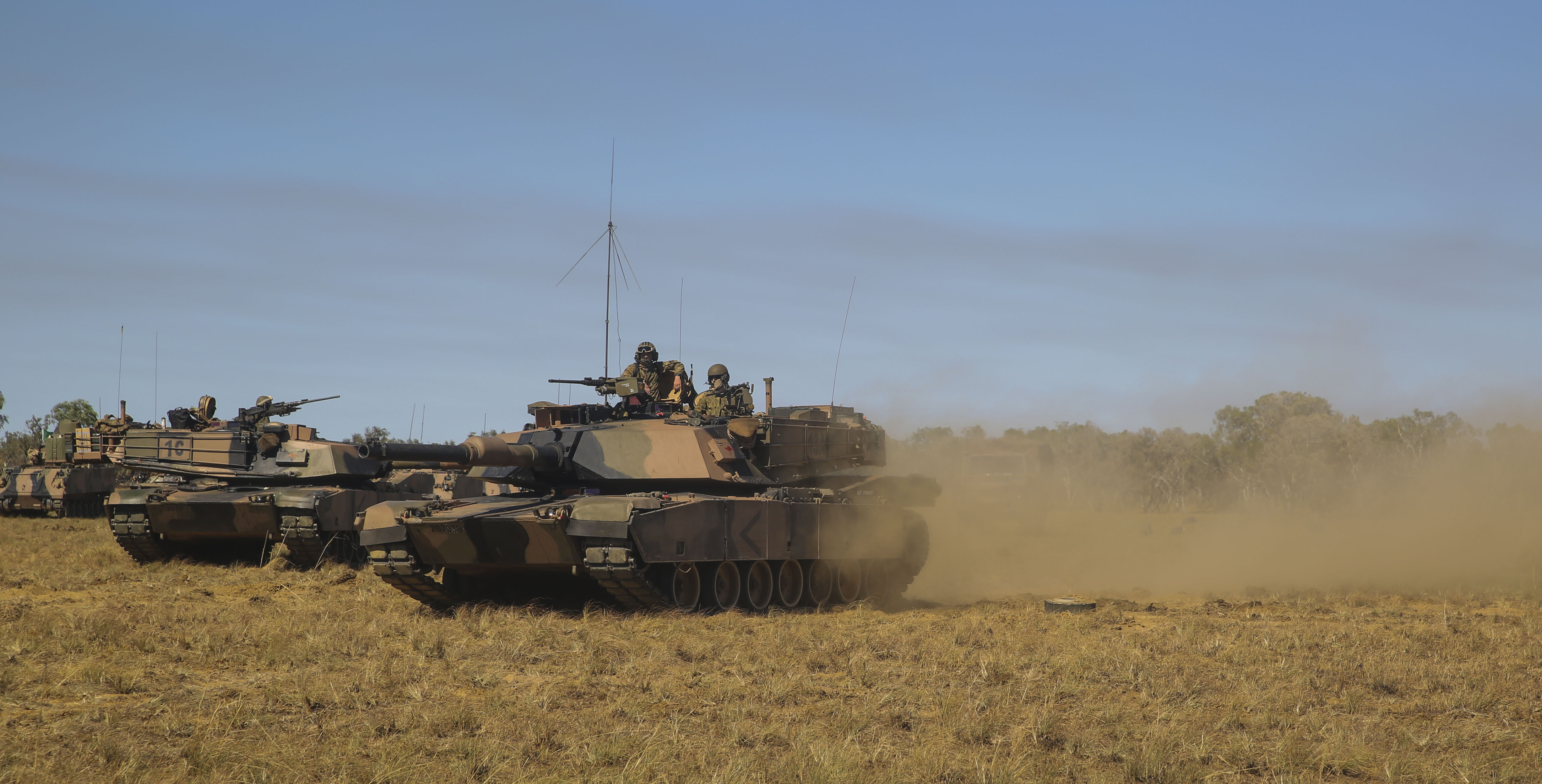 Australian Army M1 Abrams Tanks with 1st Armored Brigade, assault an enemy position during Exercise Koolendong at Bradshaw Training Area, Aug 21, 2014.